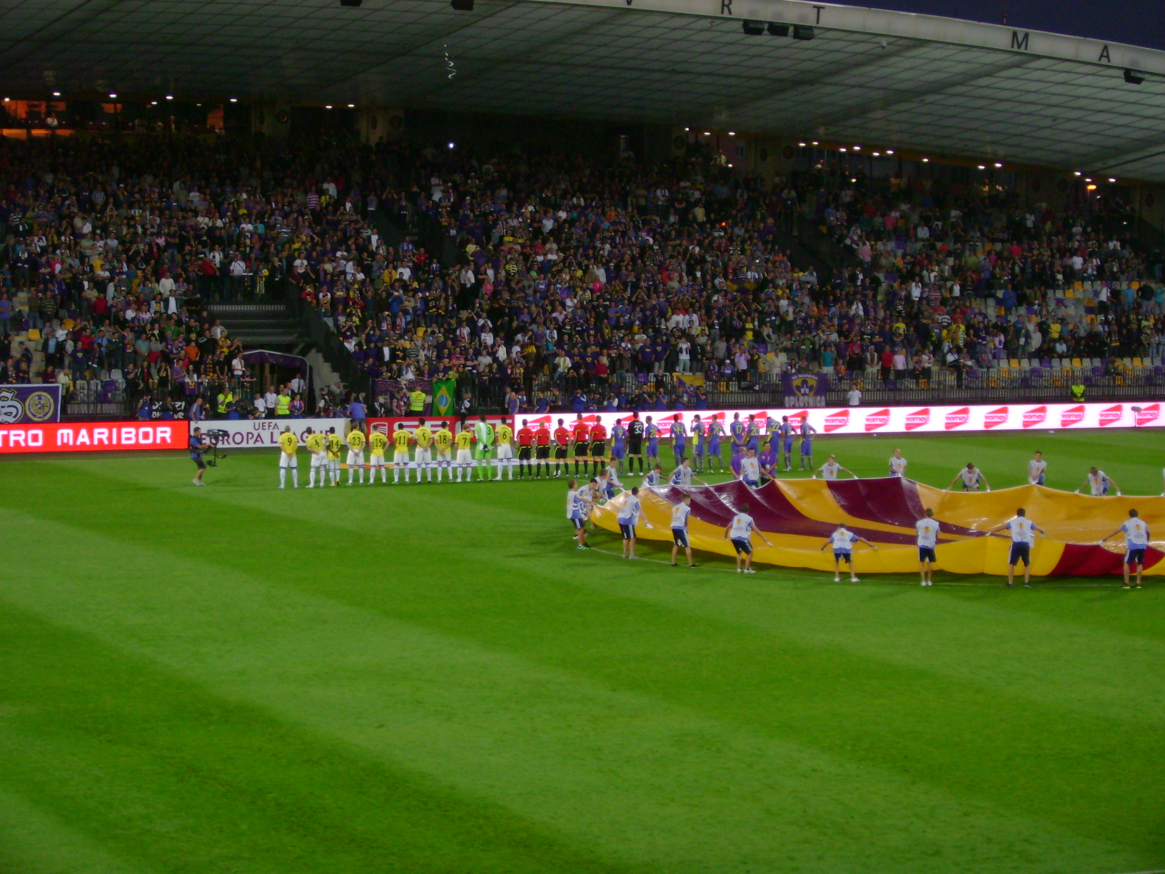 Maribor and Birmingham City players lineup moments before the start of their 2011–12 Europa League match.